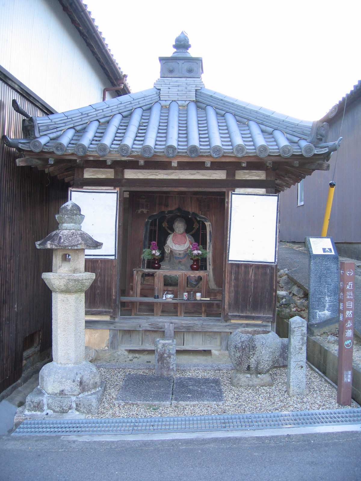 Tomb of Chujou-hime (中将姫) near Taima-dera in Nara, Japan. Taken by me.